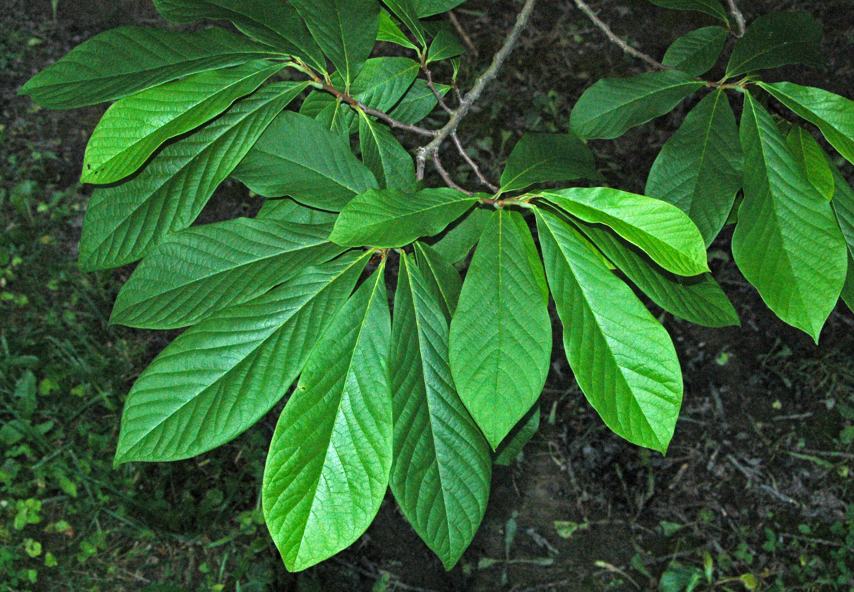 Asimina triloba (Linnaeus, 1753) - pawpaw tree (Dawes Arboretum, Licking County, Ohio, USA) Plants are multicellular, photosynthesizing eucaryotes. Most species occupy terrestrial environments, but they also occur in freshwater and saltwater aquatic environments. The oldest known land plants in the fossil record are Ordovician to Silurian. Land plant body fossils are known in Silurian sedimentary rocks - they are small and simple plants (e.g., Cooksonia). Fossil root traces in paleosol horizons are known in the Ordovician. During the Devonian, the first trees and forests appeared. Earth's initial forestation event occurred during the Middle to Late Paleozoic. Earth's continents have been partly to mostly covered with forests ever since the Late Devonian. Occasional mass extinction events temporarily removed much of Earth's plant ecosystems - this occurred at the Permian-Triassic boundary (251 million years ago) and the Cretaceous-Tertiary boundary (65 million years ago). The most conspicuous group of living plants is the angiosperms, the flowering plants. They first unambiguously appeared in the fossil record during the Cretaceous. They quickly dominated Earth's terrestrial ecosystems, and have dominated ever since. This domination was due to the evolutionary success of flowers, which are structures that greatly aid angiosperm reproduction. The pawpaw tree is native to much of eastern America, including the Central and Southern Appalachians, the Ohio Valley area, the Mississippi River Valley area, and the lower Missouri Valley area. The large fruit of this tree are edible for humans. Classification: Plantae, Angiospermophyta, Magnoliales, Annonaceae More info. at